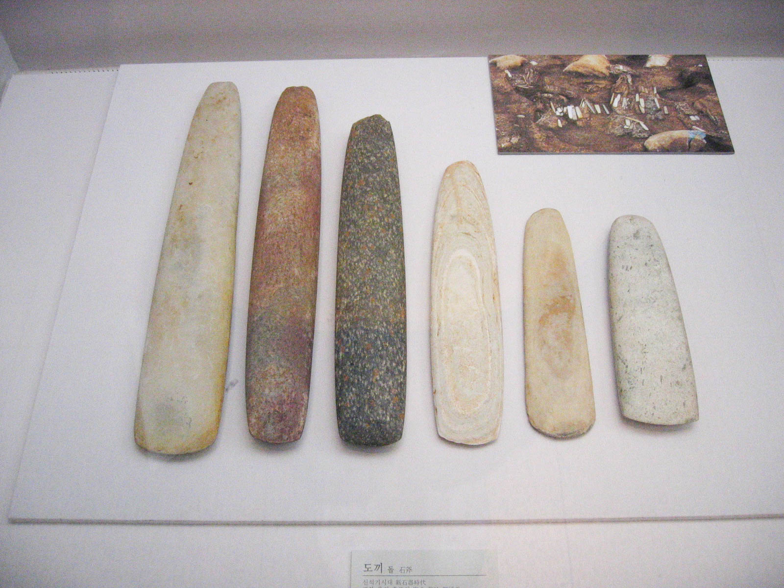 Neolithic axes found in Korea.